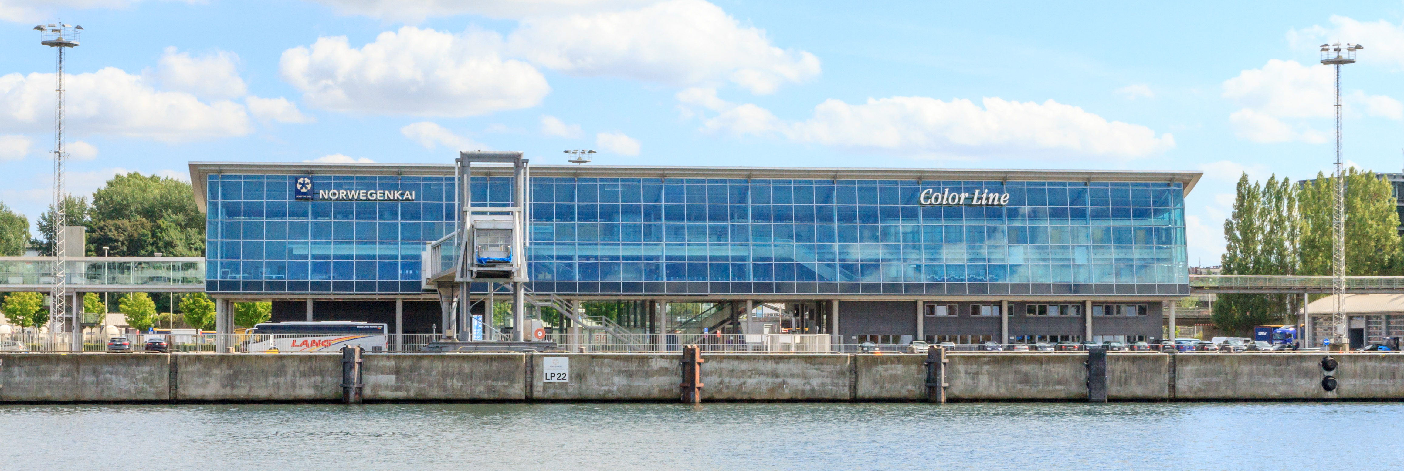 Norwegenkai Kiel, Germany